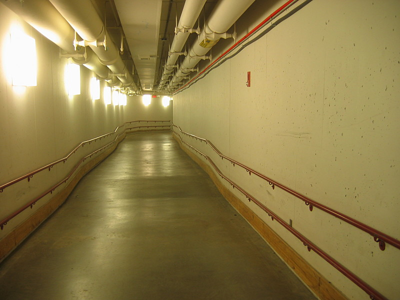 Underground pedestrian tunnel between buildings at MIT, heading westbound under Ames Street from E17/E18/E19 to 66.